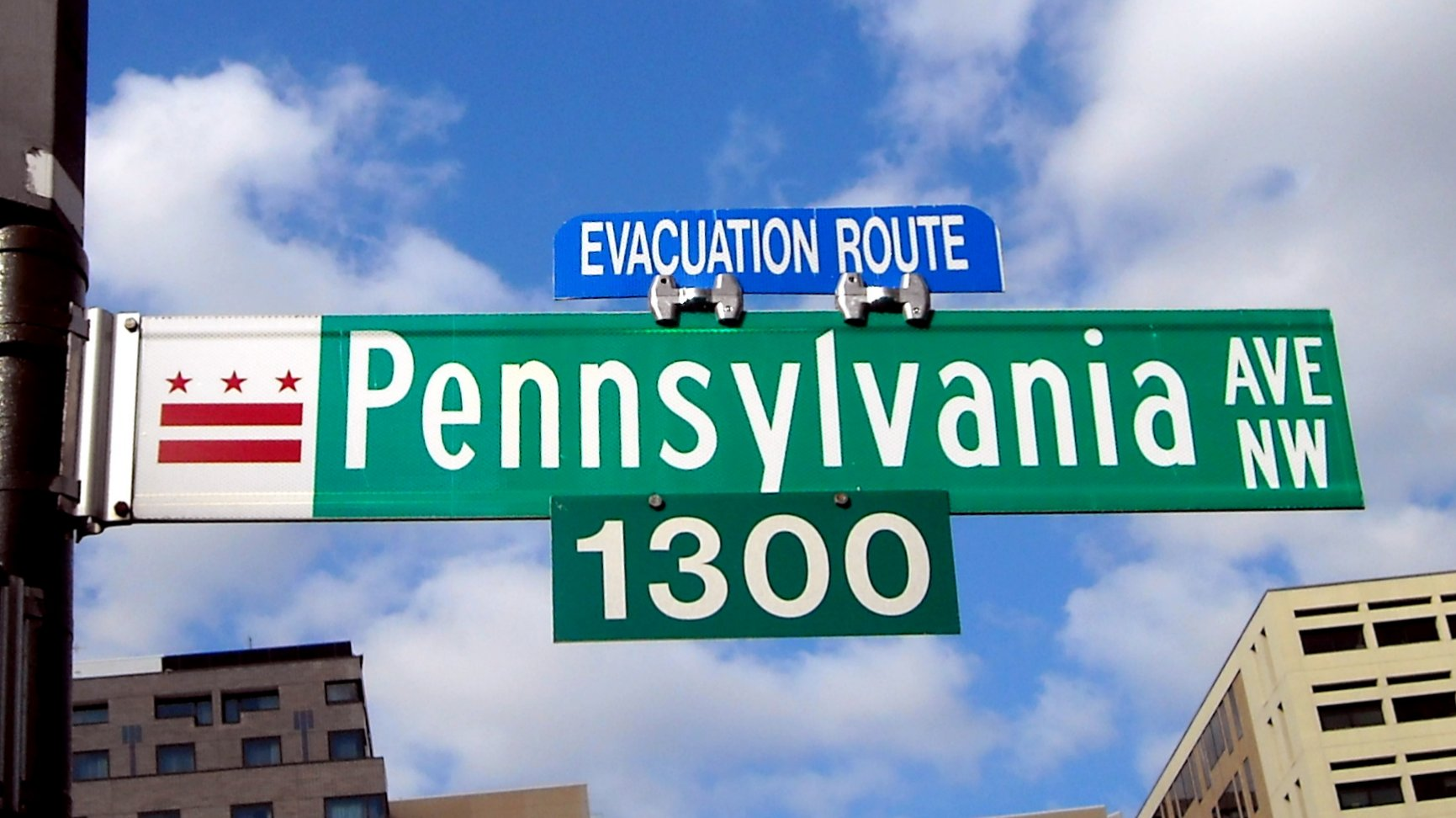 Stoplight on Pennsylvania Avenue with an Evacuation Route sign.